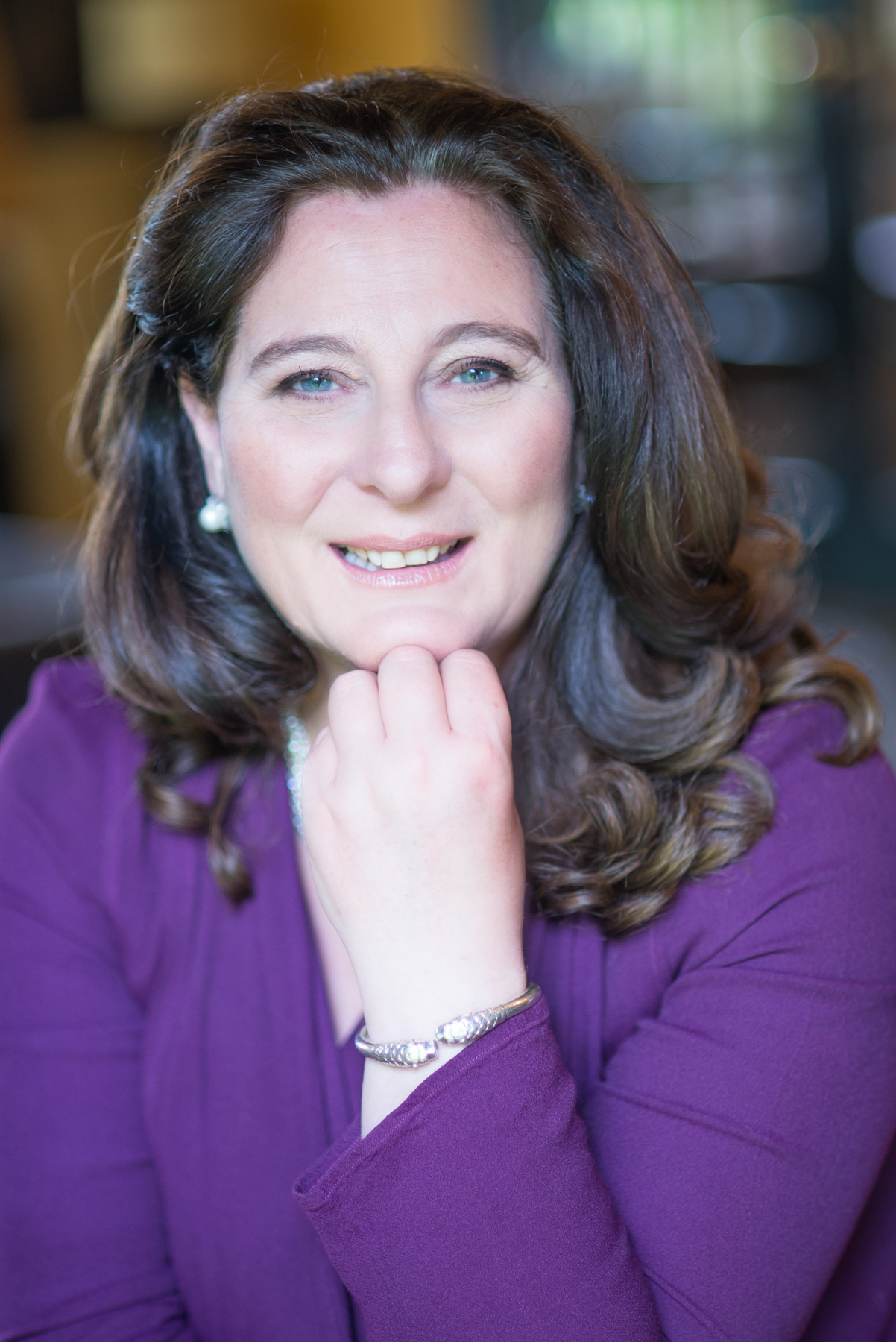 This was a Photograph taken of HRH Princess Katarina of Yugoslavia and Serbia on 9th August 2014